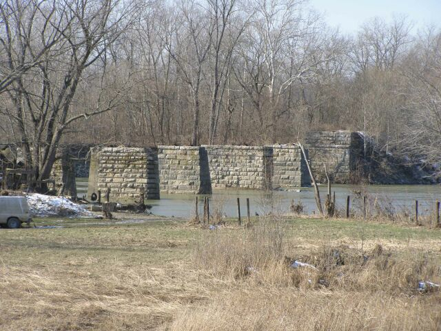 Old piers of the White River Bridge of the Monon